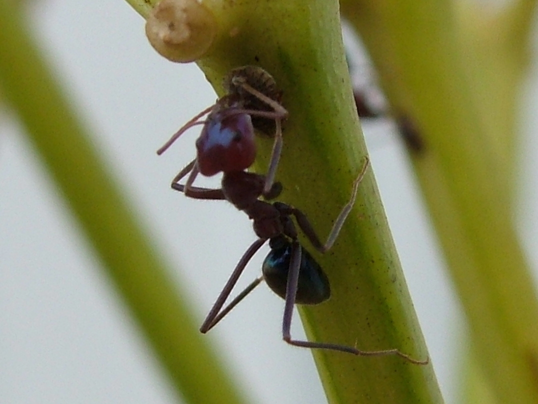 Australian Meat Ant found in Central Queensland, Australia